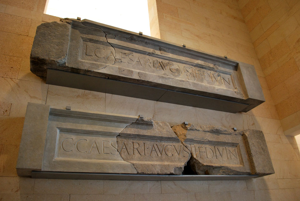 Lintels of Gaius and Lucius Caesar, from the Roman theatre of Cartagena. Museum of the Roman Theatre of Cartagena.